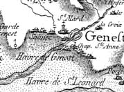 Old map of Genêts and its bay, in the Mont Saint-Michel bay.